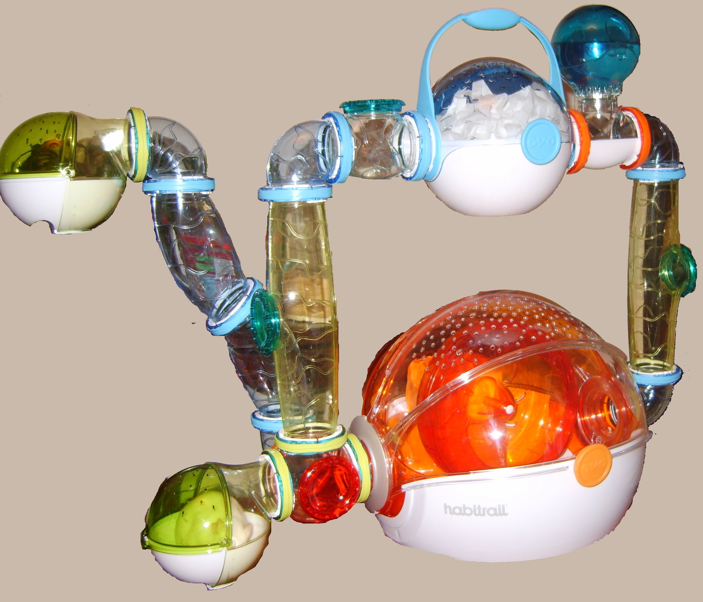 Habitrail OVO Hamster living environment